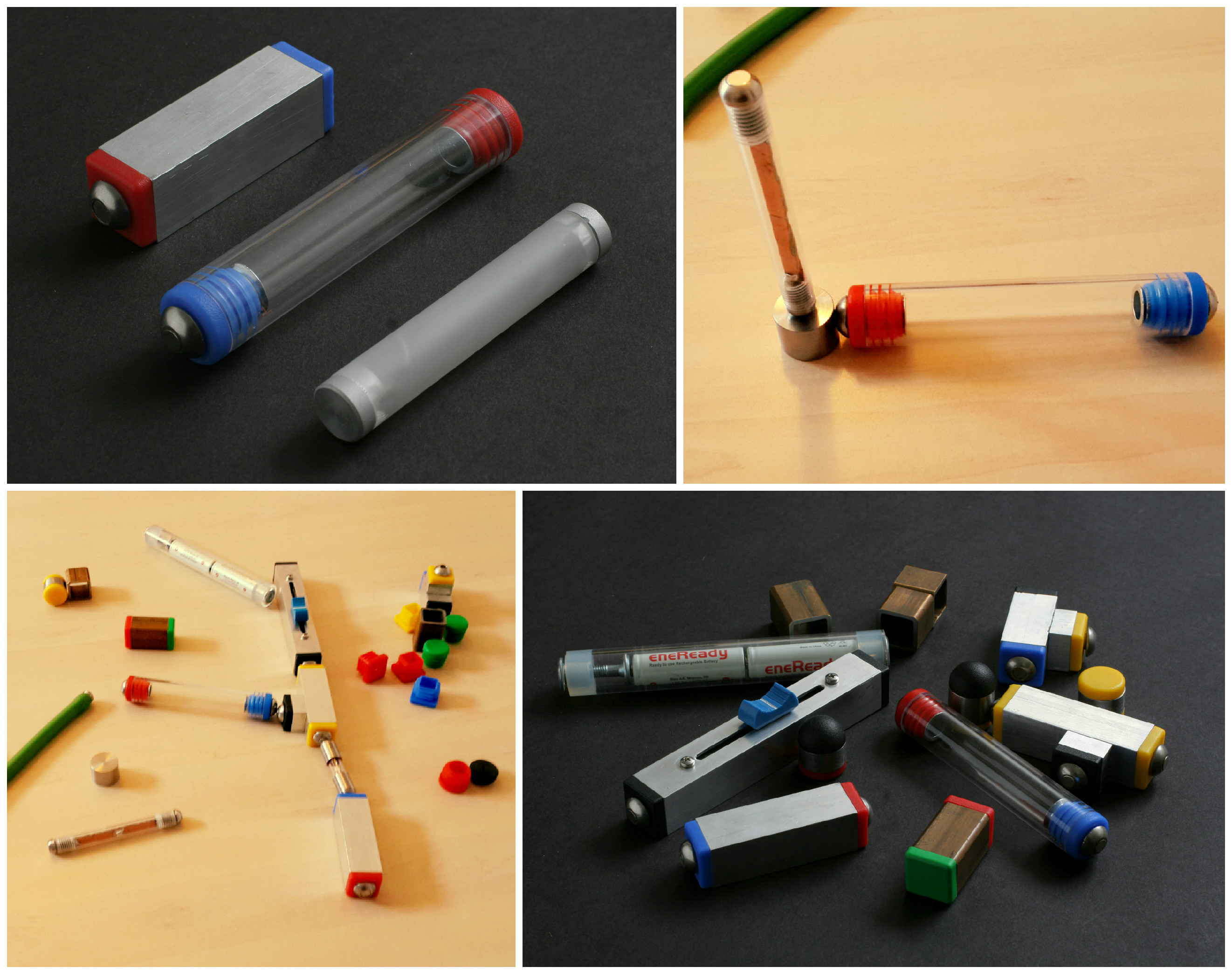 Elex Pipe prototypes and elements